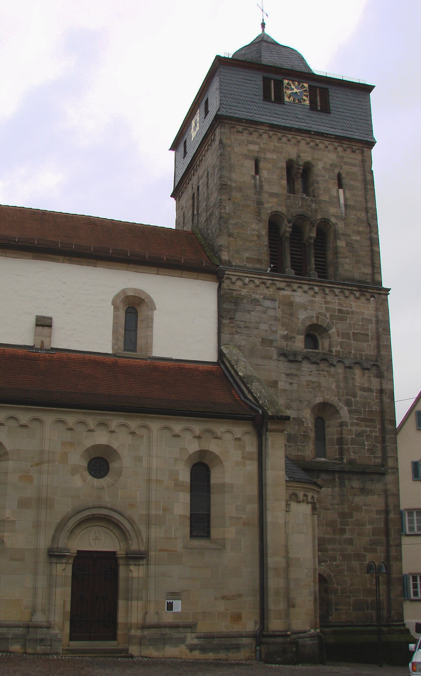 Stiftskirche Oberstenfeld, Southern Portal and Big Tower